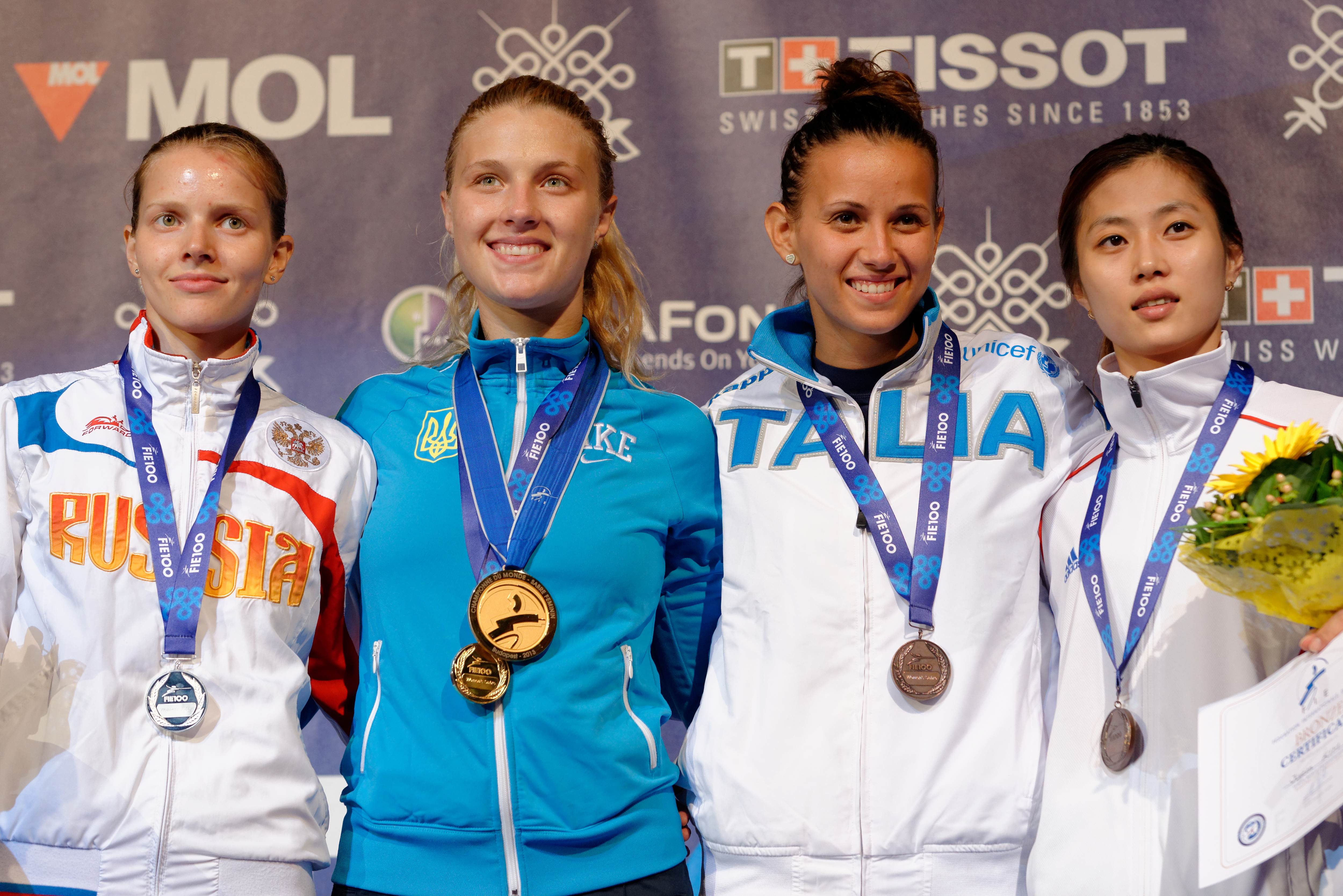 From left to right, Yekaterina Dyachenko, Olha Kharlan, Irene Vecchi, and Kim Ji-yeon at on the podium of the women's sabre event of the 2013 World Fencing Championships 2013 at Syma Hall in Budapest on 9 August 2013.